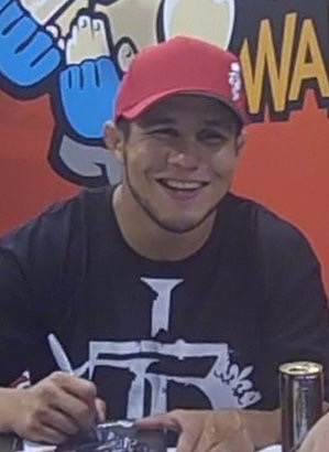 Joe "Daddy" Stevenson with fans - UFC 100 Fan Expo - Mandalay Bay Casino, Las Vegas